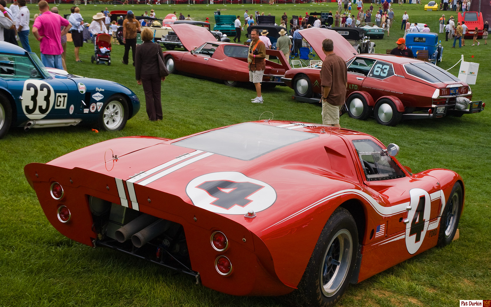 Rear view of a Ford GT40 Mk IV